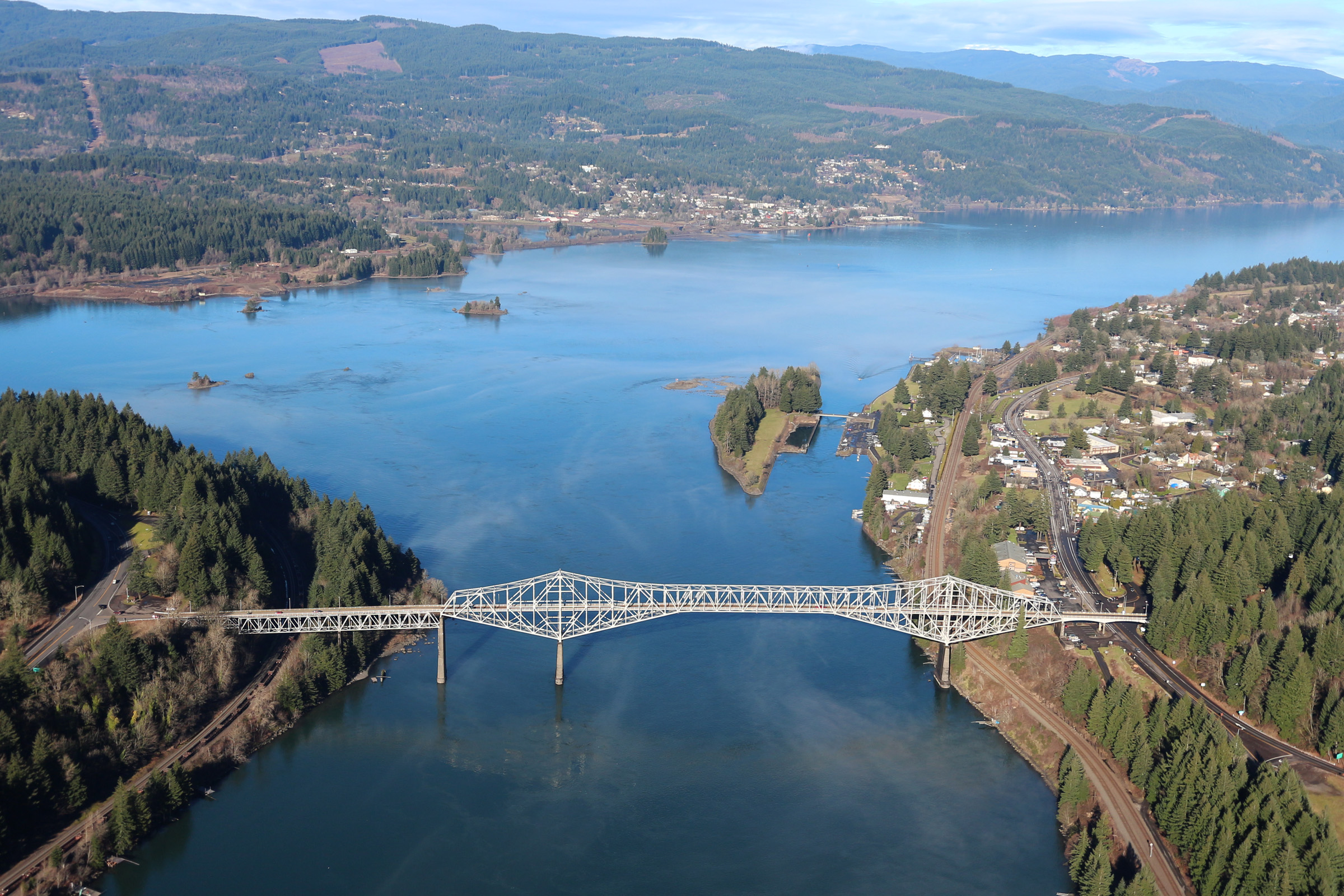 An aerial view of the Bridge of the Gods, January 2015